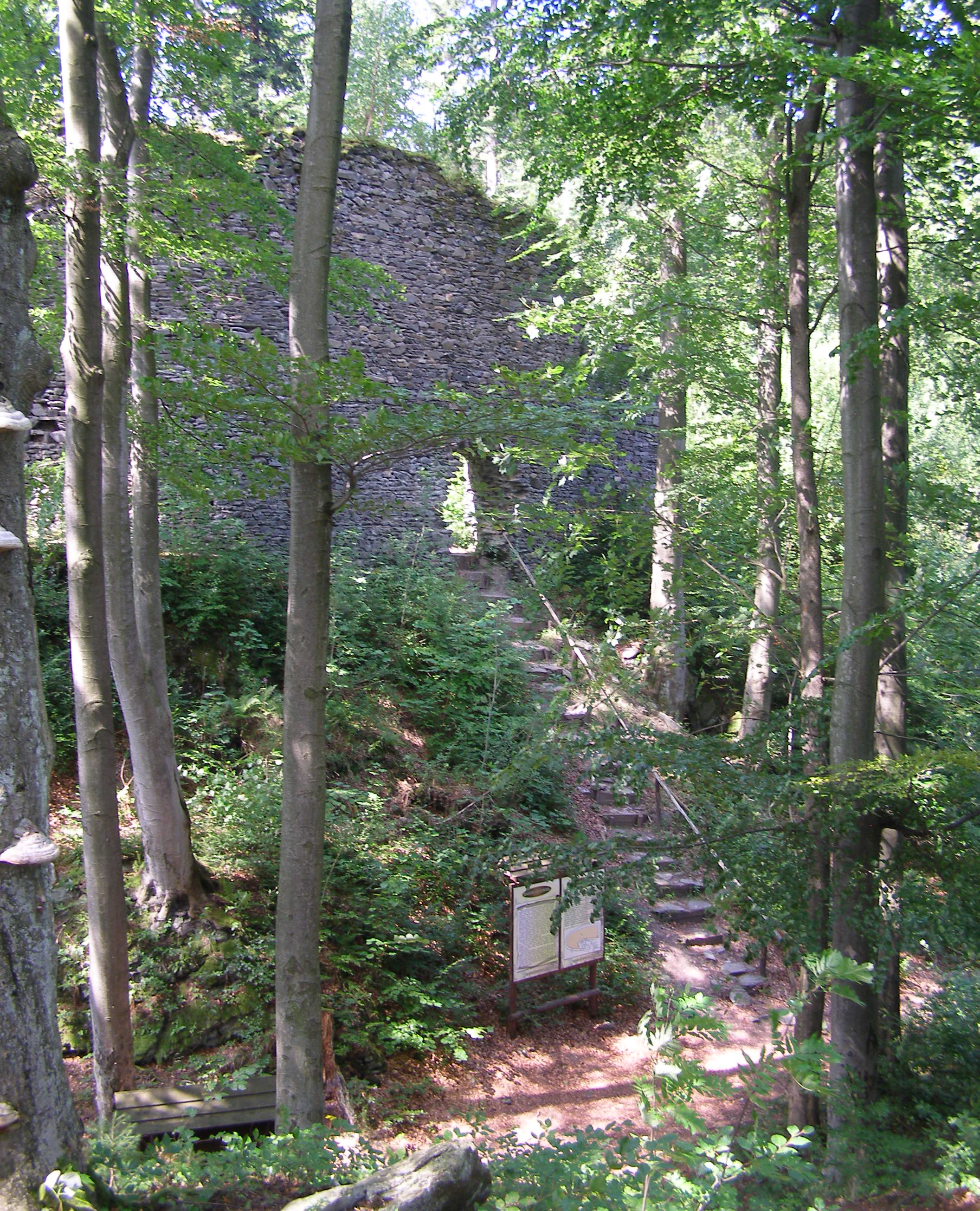 Ruins of the Szczerba Castle